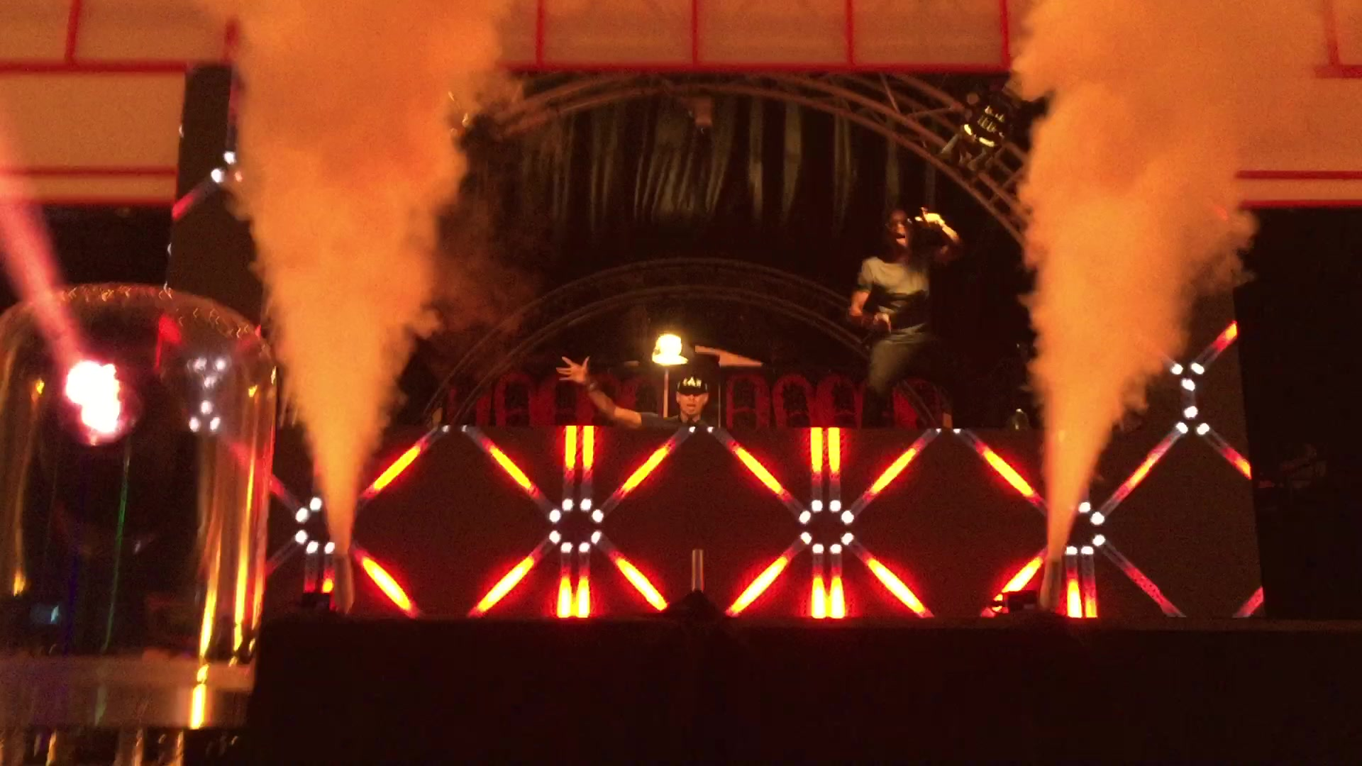 Afrojack & MC Ambush live at 2016 in Germany